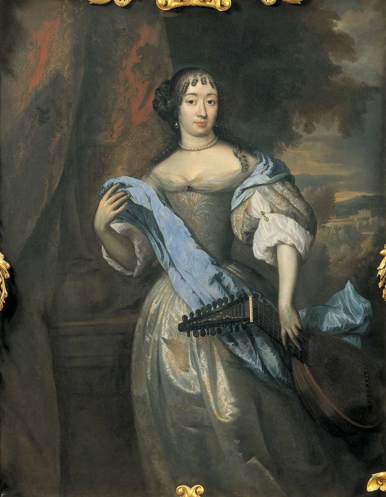 The original frames are carved in limewood, with gilt high relief, and entirely symmetrical to each other. In the corners are pairs of putti gathering roses. The stiles and rails are ornamented with vines, festoons and scrolls of oak, laurel and acanthus.The motto in the cartouche at bottom translates as: ‘A contented heart is a great good.’